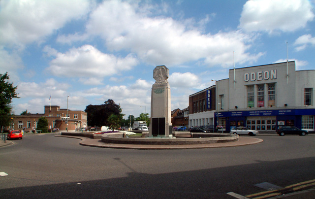 Beckenham War Memorial. This memorial commemorates the men and women of Beckenham who lost their lives in two World Wars. It was unveiled on Sunday 24th July 1921. The memorial was designed by Mr. Newbury A. Trent, R.B.S., is approximately 7.5 metres high, and is a rectangular white Portland stone column. This view is from the south, with the High Street to the right. On the left is the post office.